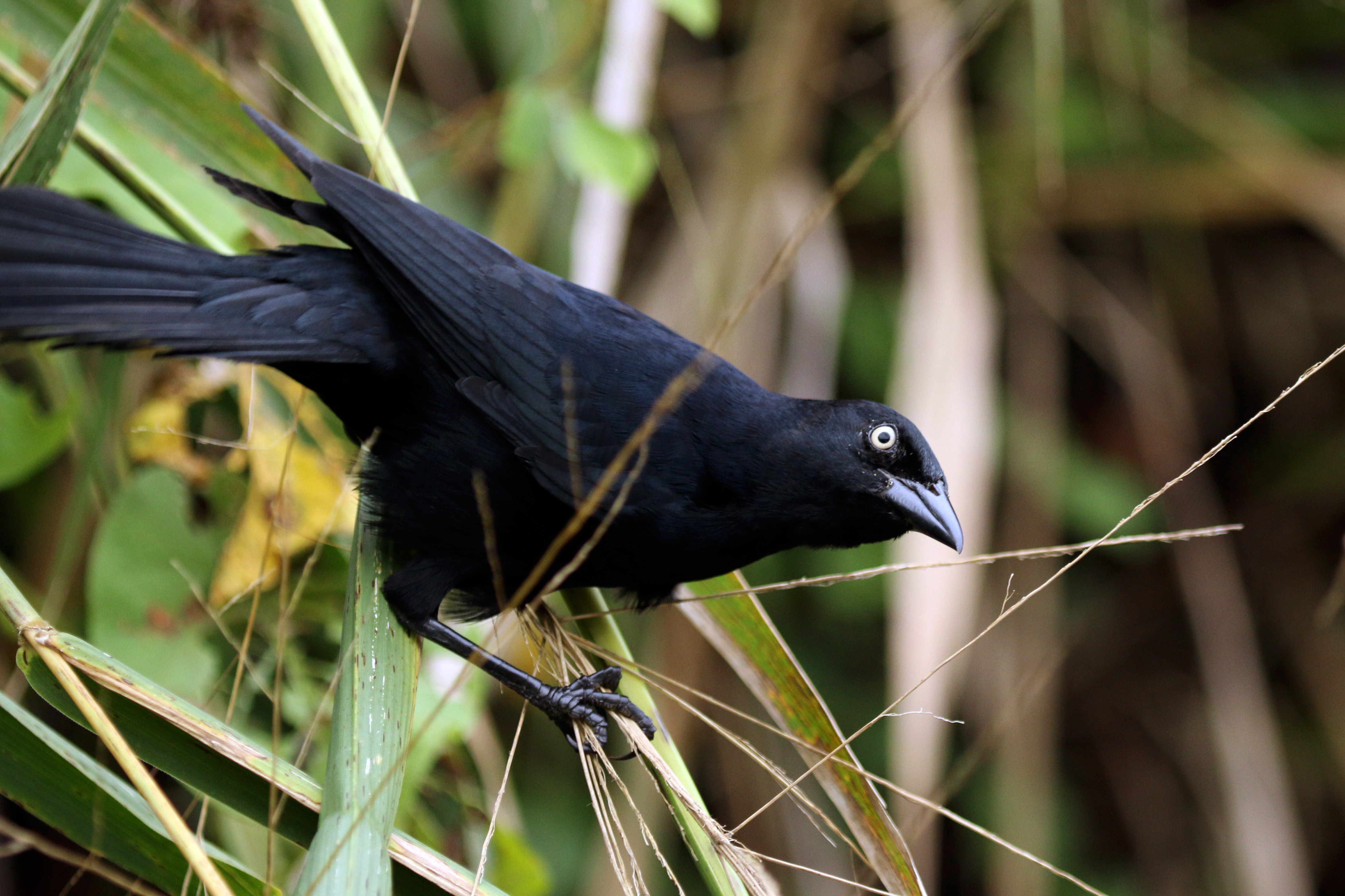 Greater antillean grackle (Quiscalus niger crassirostris), Jamaica